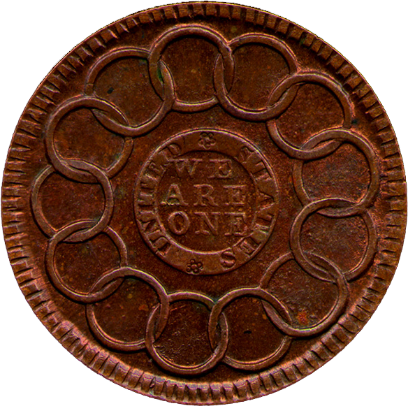 Reverse of the "Fugio Cent", a US copper coin from 1787.